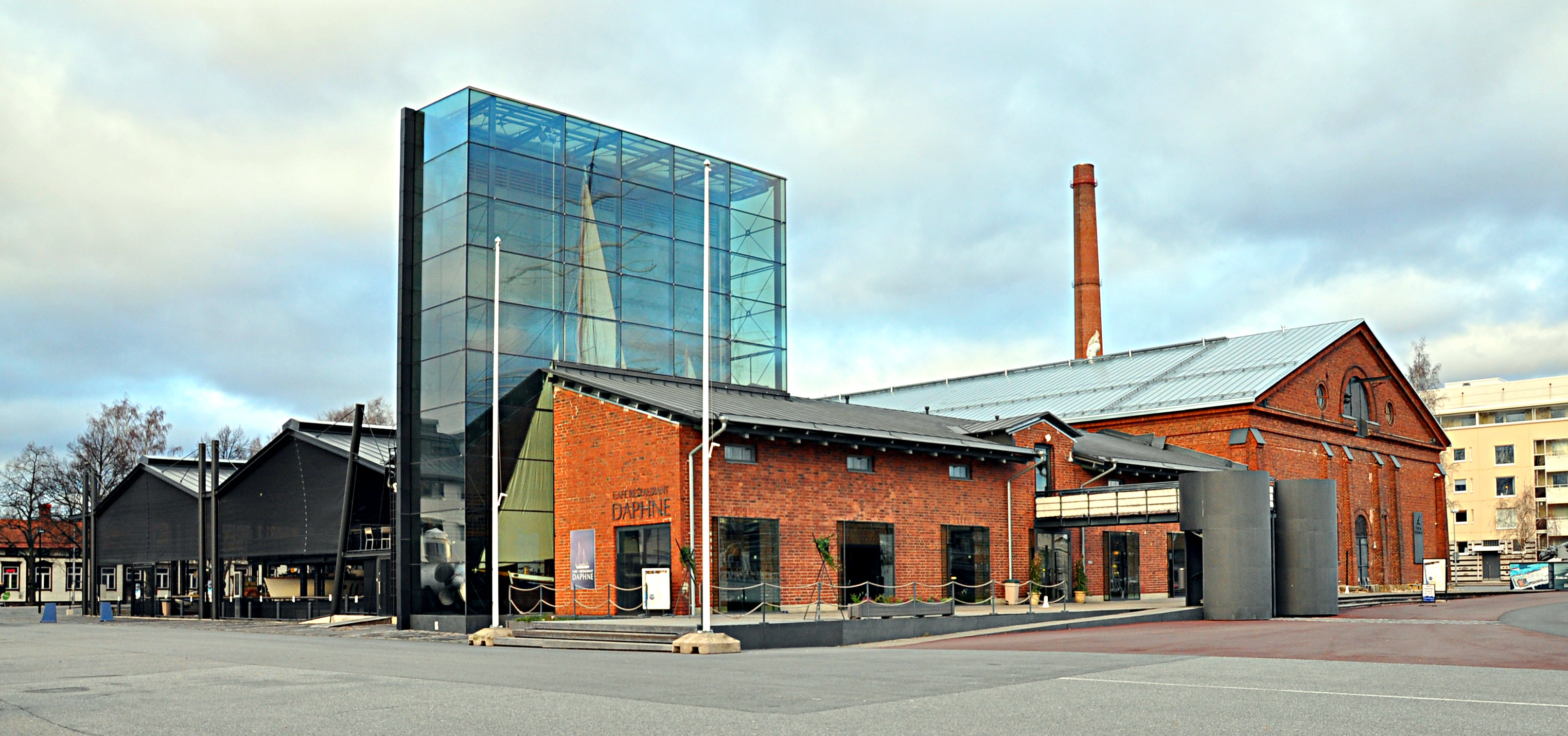 Old Warehouse BuildingMuseum's